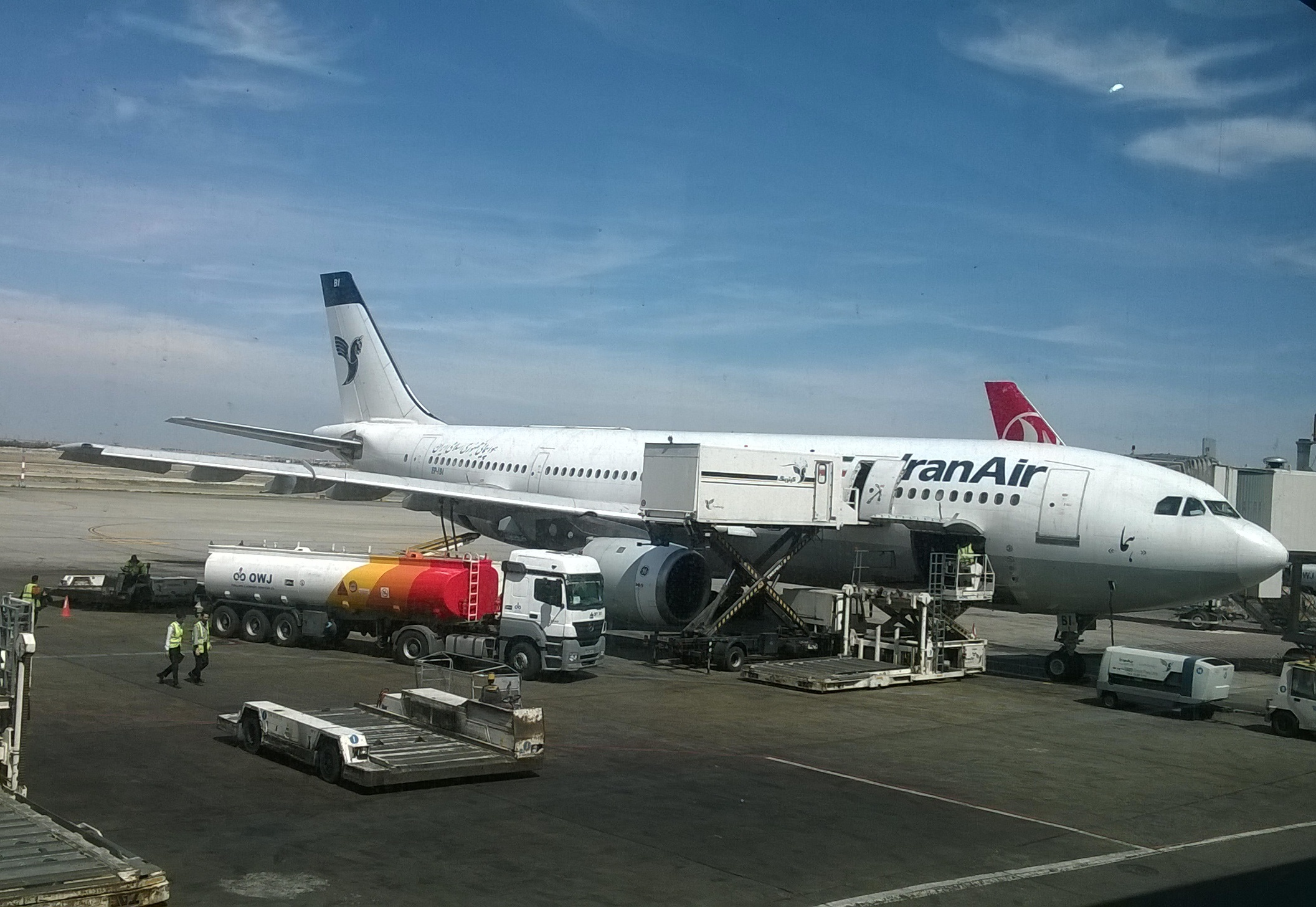 Iran Air, Boeing 737 refueling, loading catering and cargo at Imam Khomeini International Airport.